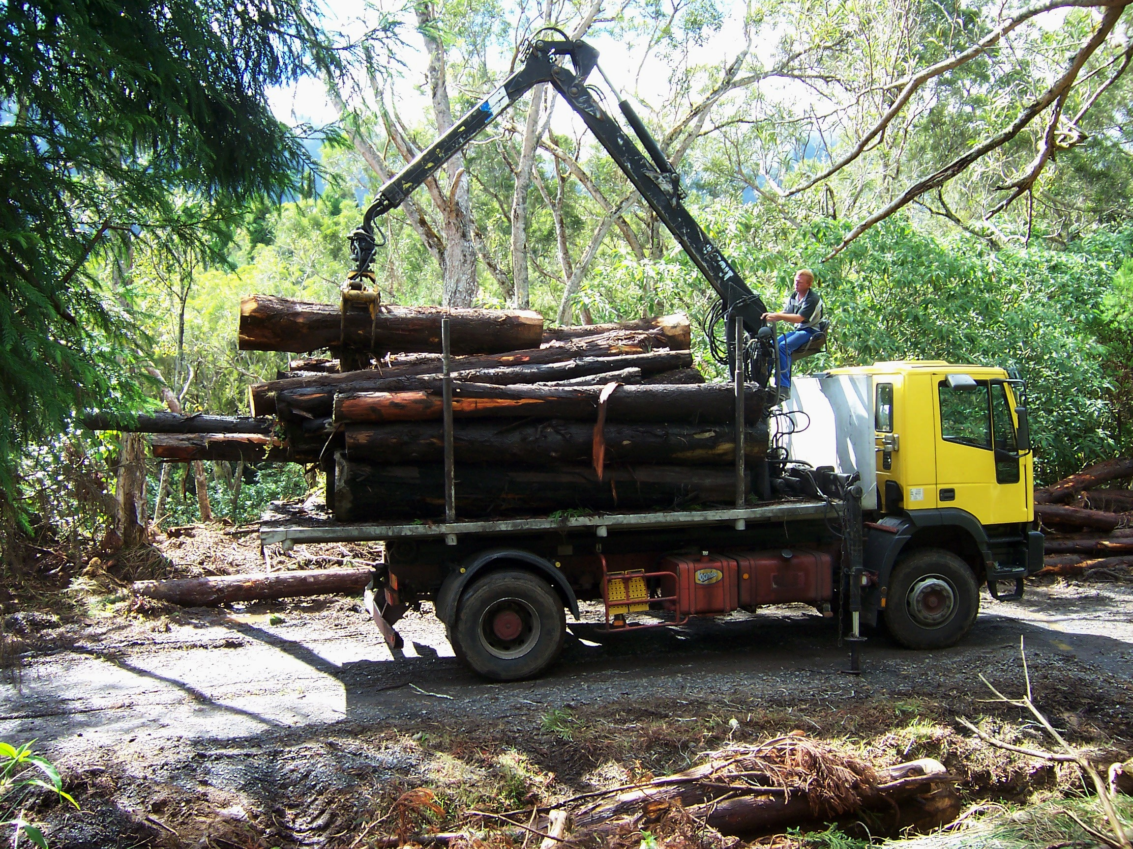 Loading logs of Sugi (Cryptomeria japonica) in the forêt de Bélouve (Réunion island)